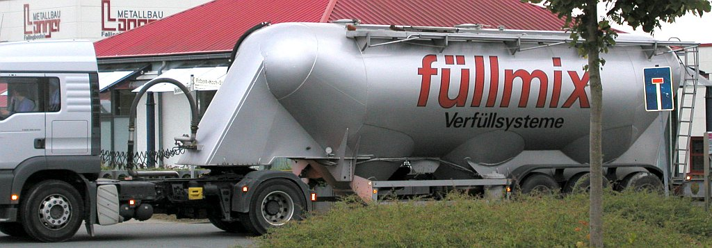 Transport vehicle for powders etc. The road tractor is a MAN, probably from the TGA-series.